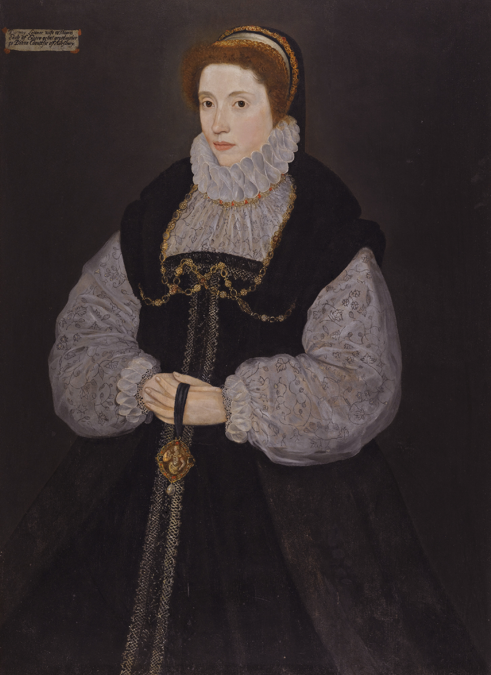 Dorothy Latimer (1549-1608), wife of Thomas Cecil, later 1st Earl of Exeter oil on panel 112 x 81 cm inscribed u.l on a cartelino: Dorothy Latimer wife to Thomas / Earl of Exeter Great Grandmother / to Diana Countefse of Ailesbury.